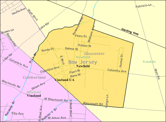 Census Bureau map of Newfield 2008-07-15T19:24:06Z OsamaK